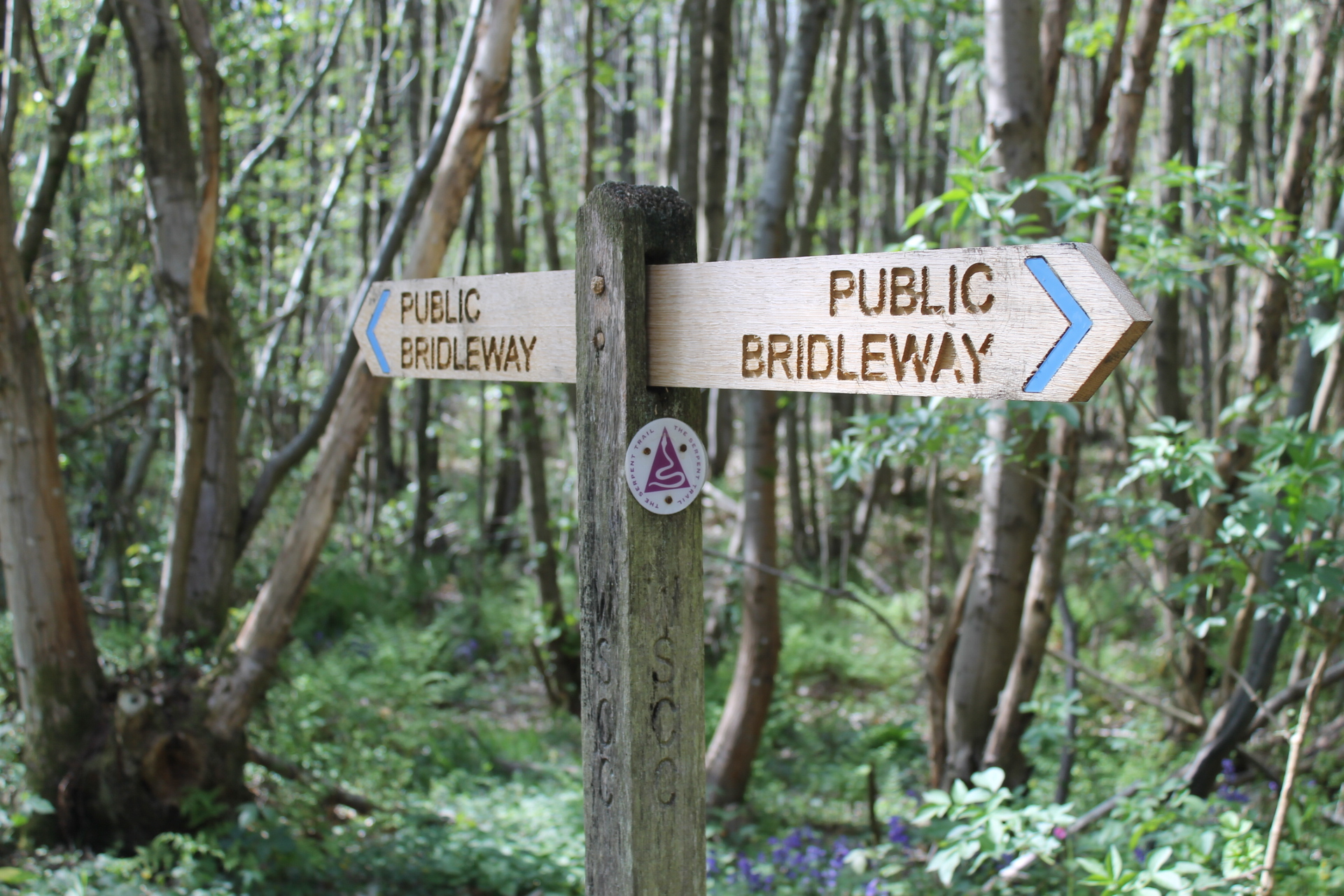 A finger post on the Serpent Trail where it follows a bridleway through chestnut coppice at Flexham Park, near Petworth, West Sussex, England. Installed by West Sussex County Council it also carries a Serpent Trail marker disc.